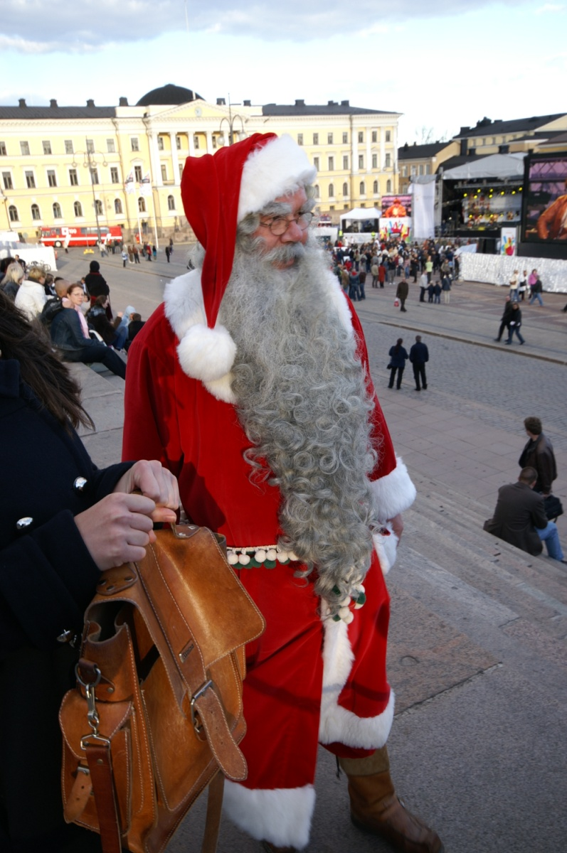 Santaclaus at Helsinki Cathedral